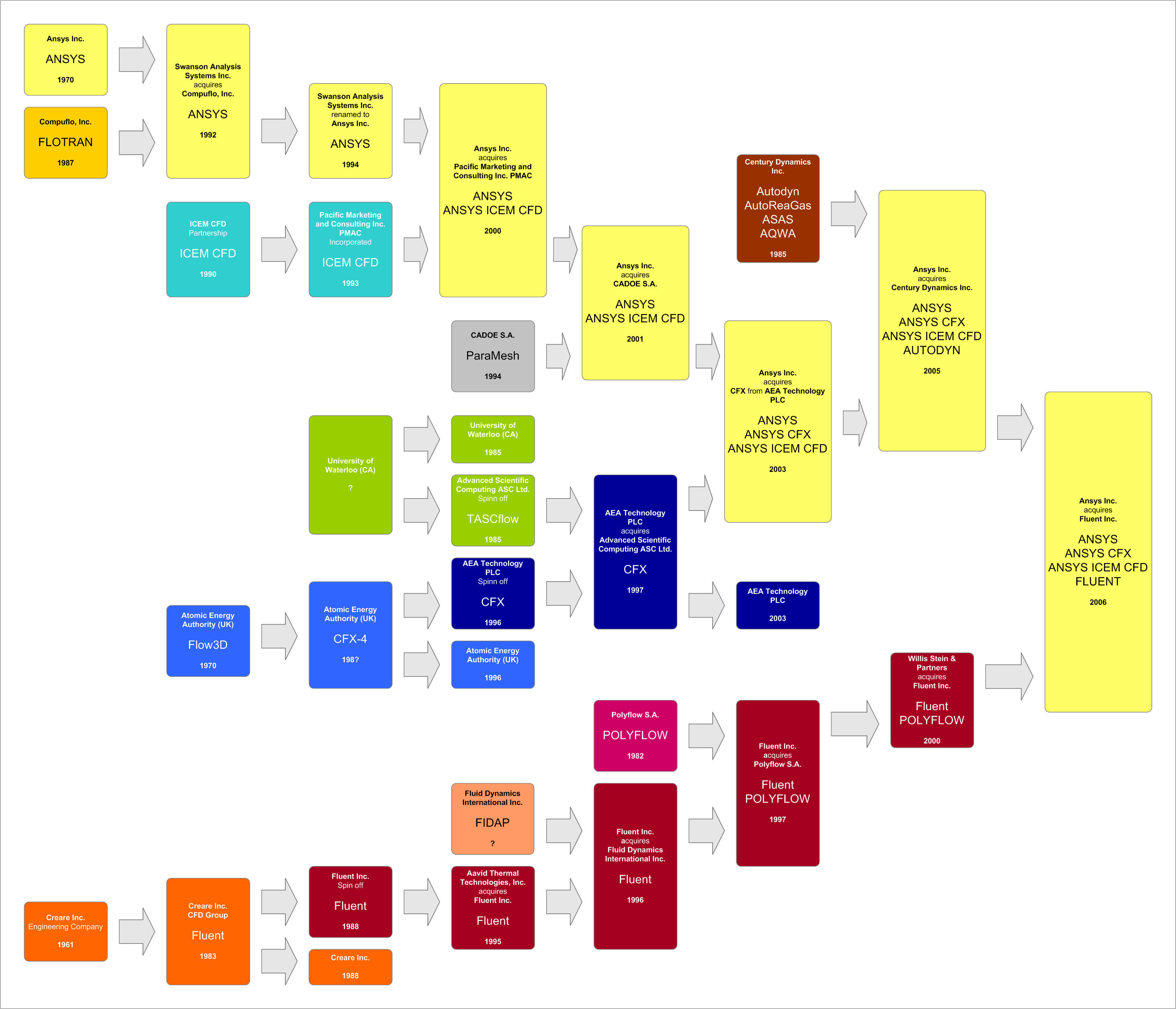 Ansys History (2007)